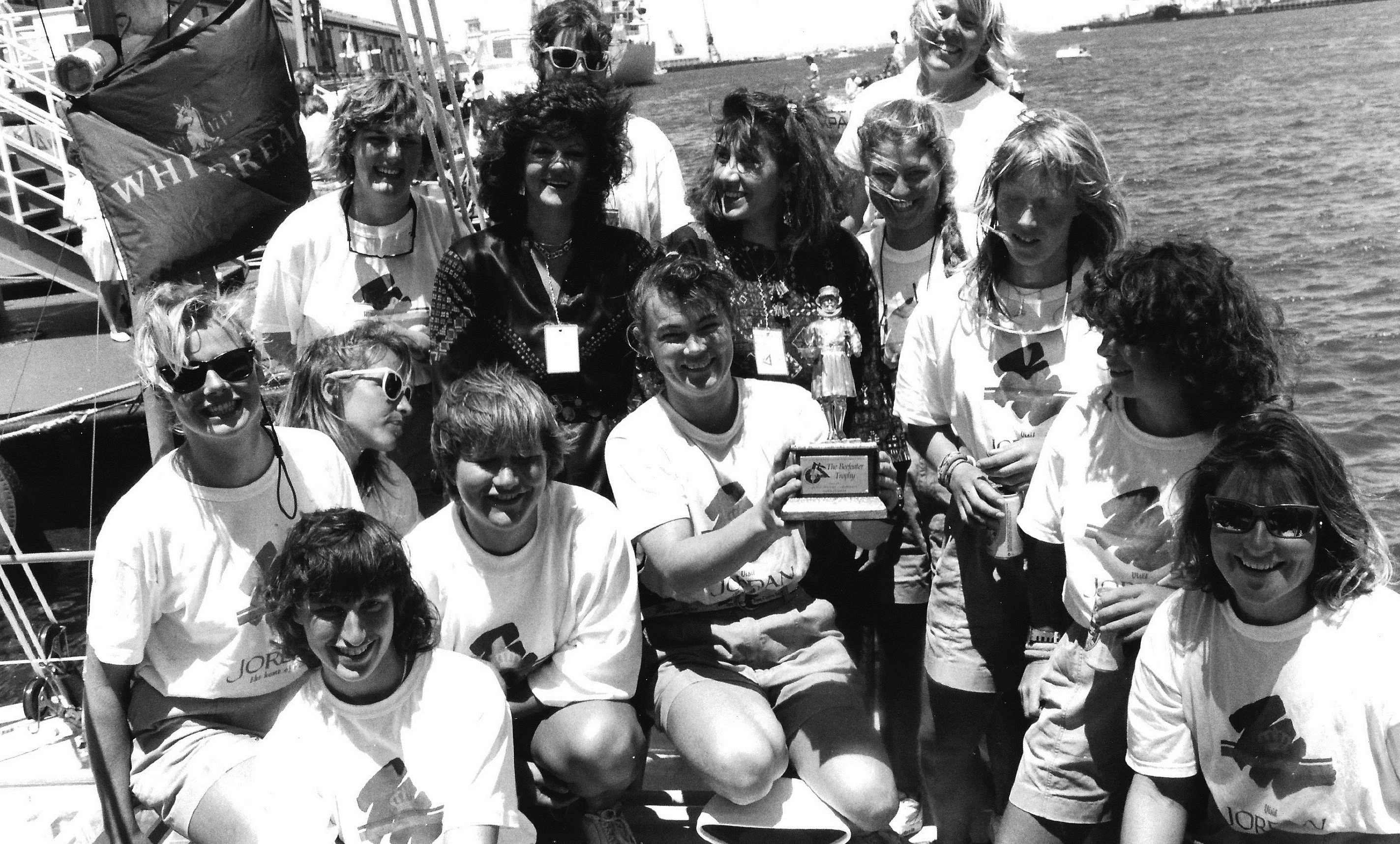 The Maiden Crew and RJA Stewardesses in Australia with the Beefeater Trophy.